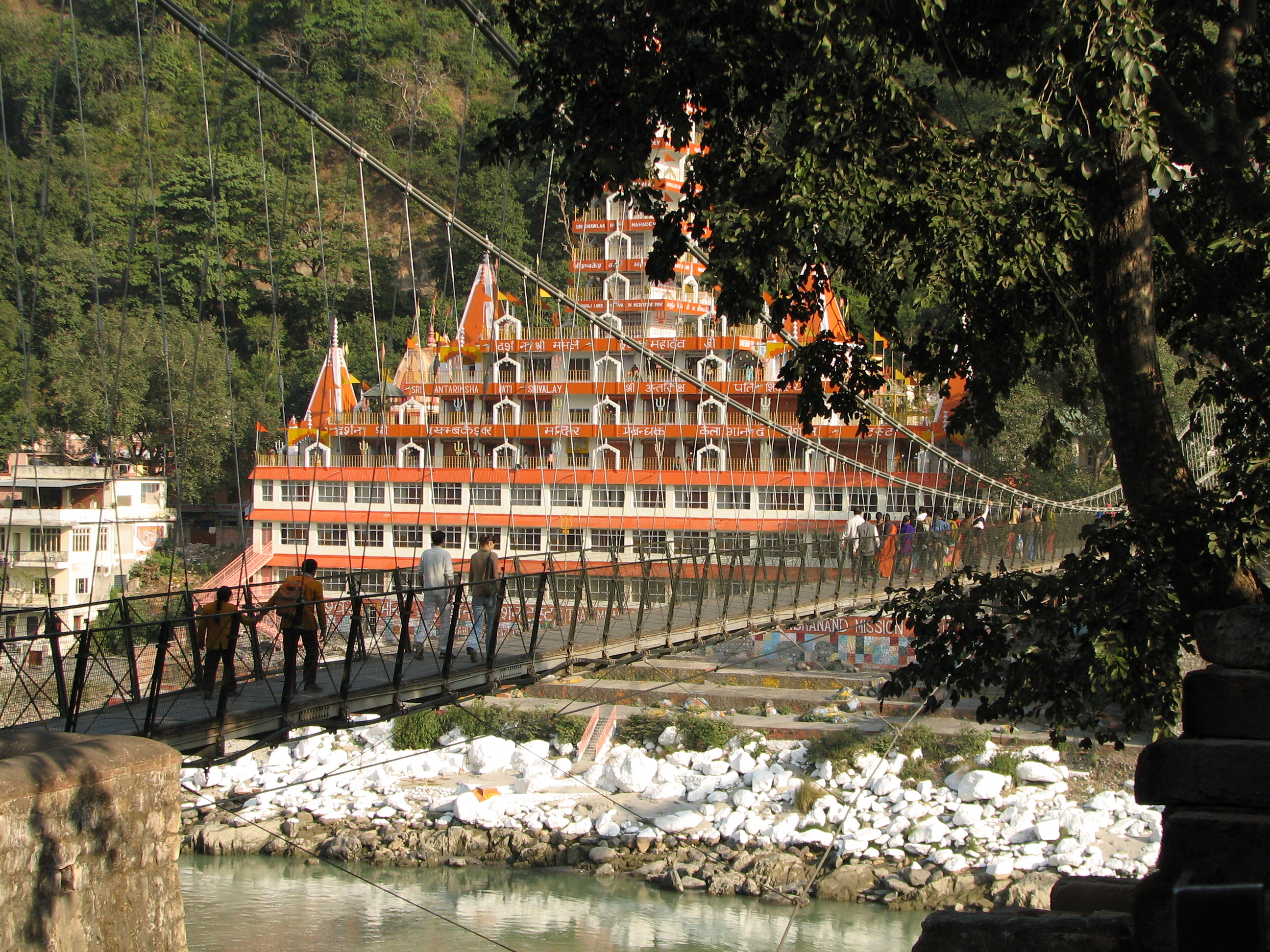 Lakshman Jhula, on the banks of Ganga, Rishikesh, Uttarakhand